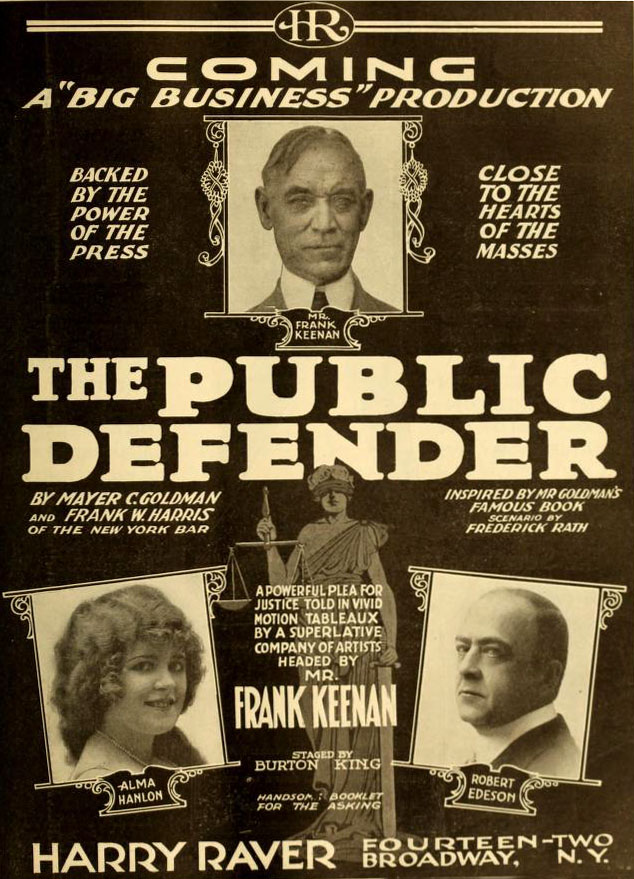 Advertisement in Moving Picture World